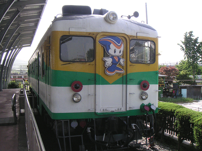 Diesel Hydraulic Car in Railway Museum in South Korea